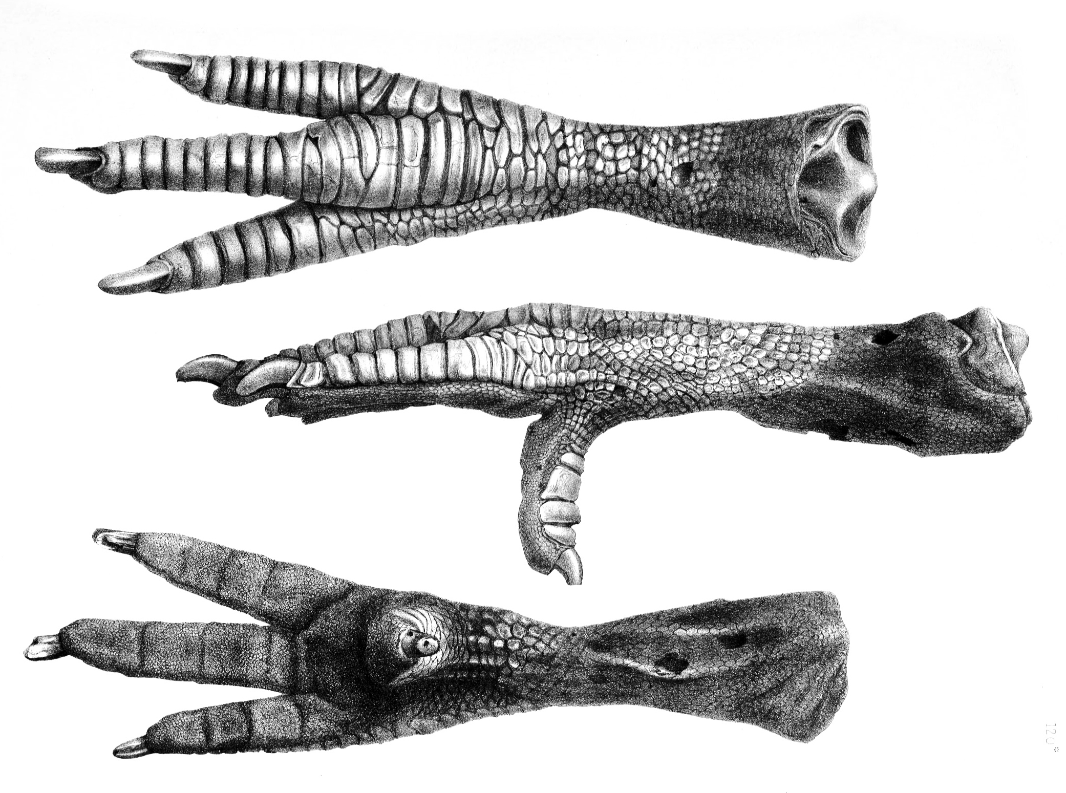 Raphus cucullatus London foot.